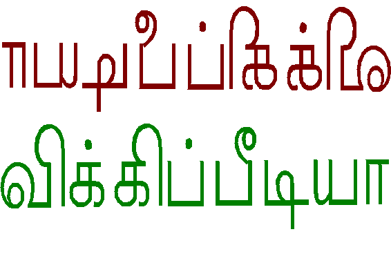 mirror image of the word wikipedia in tamil